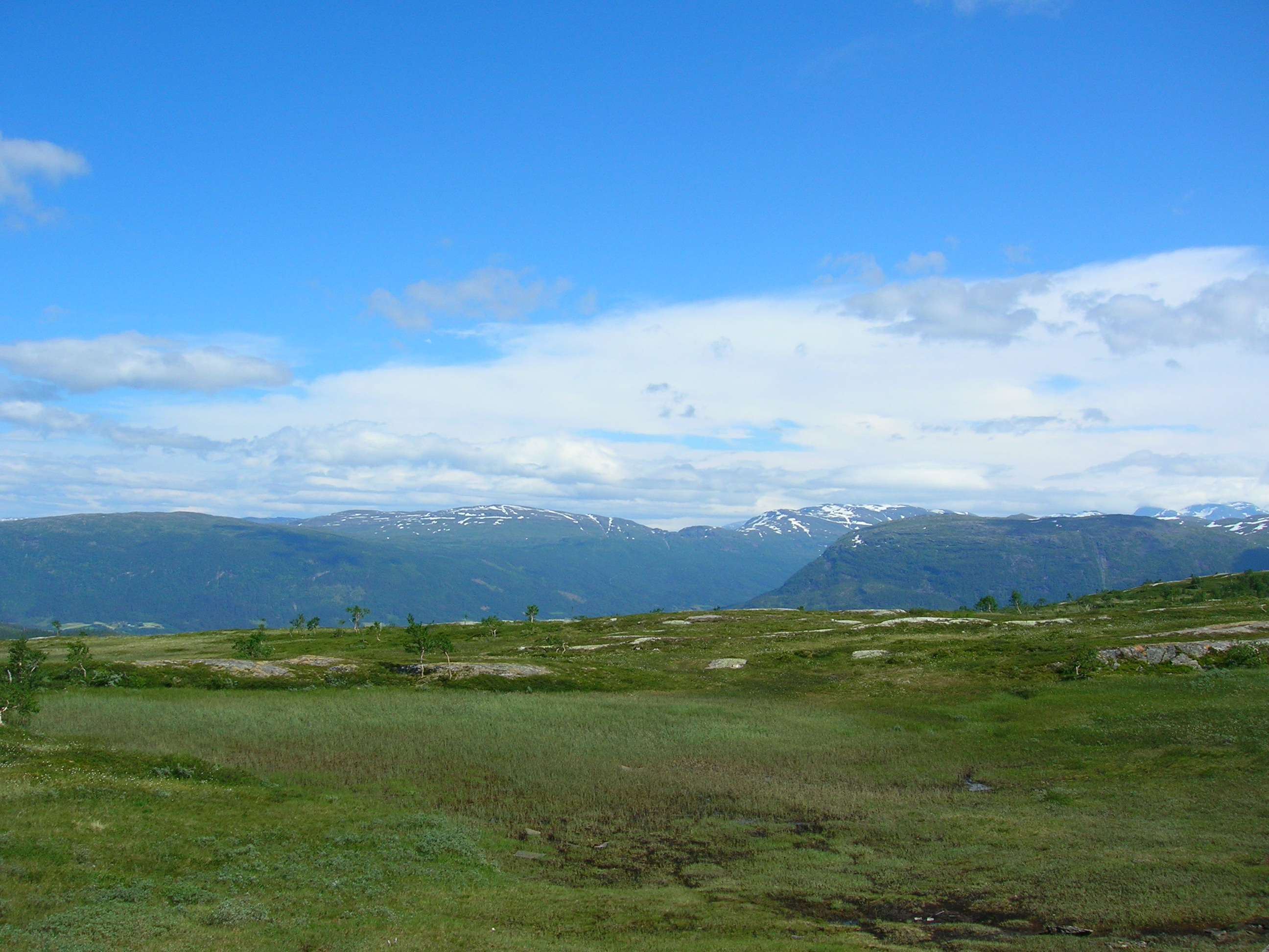 The beginning of the municipality of Hemnes, Nordland, Norway, seen northwards from Korgfjellet. Photo on Korgfjellet, Nordland county, Norway, on July 8, 2007 with a Nikon Coolpix 5600 5,1 Megapixel camera.